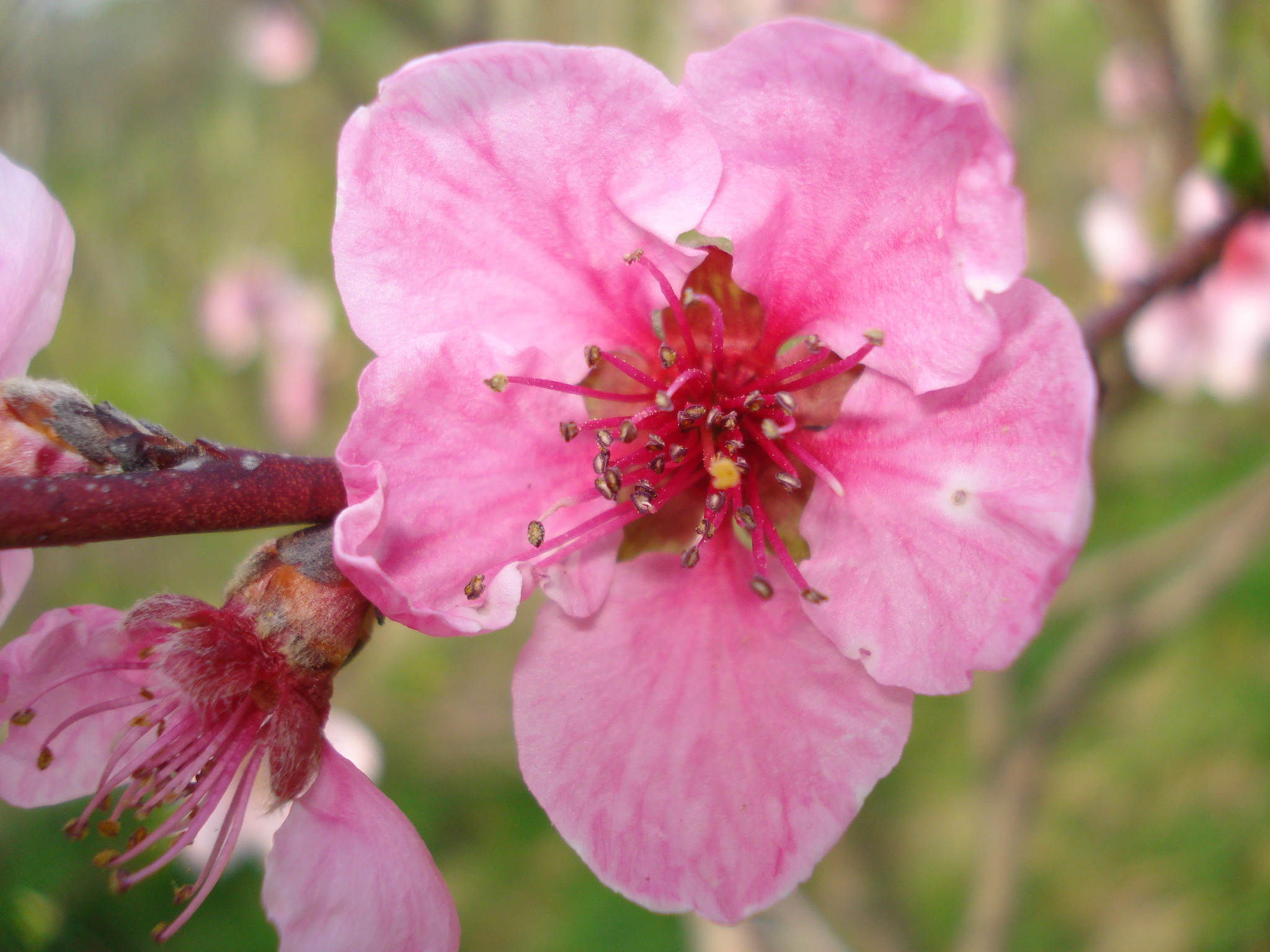 Vineyard peach blossom close-up in early spring (Međimurje County, Croatia)